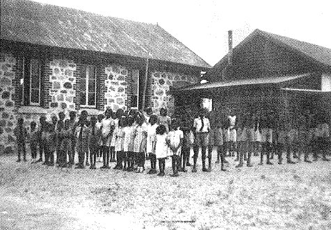 Carrolup River Native Settlement, near Katanning, Western Australia c.1951, The Bulletin November 15, 2005